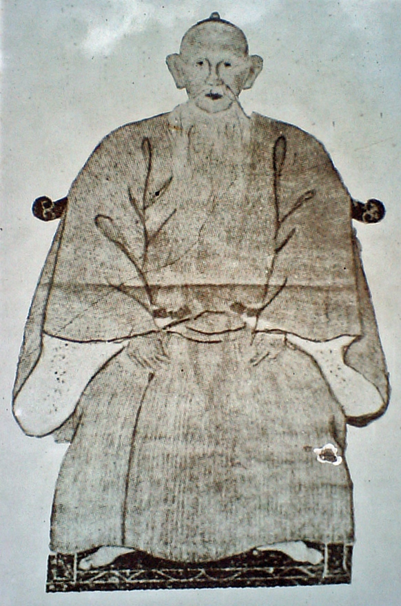 Kamegawa Seibu (1808 - 1890)